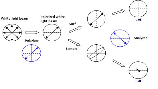 Polarisation state of light reflected on a Surf (0) and on a sample on the Surf (1).